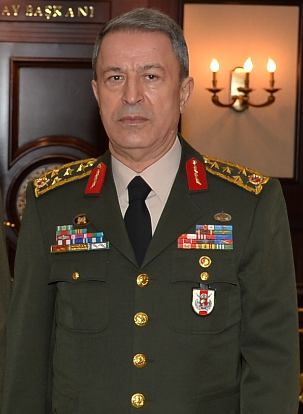 Joseph Dunford & Hulusi Akar